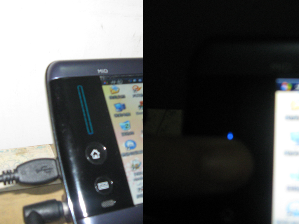 Mouse wheel of BenQ MID S6.